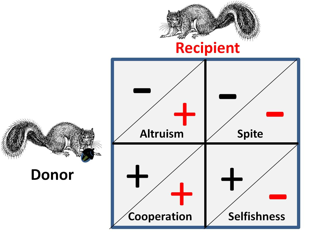 From an evolutionary game theory the four alternative social forms of strategic interaction